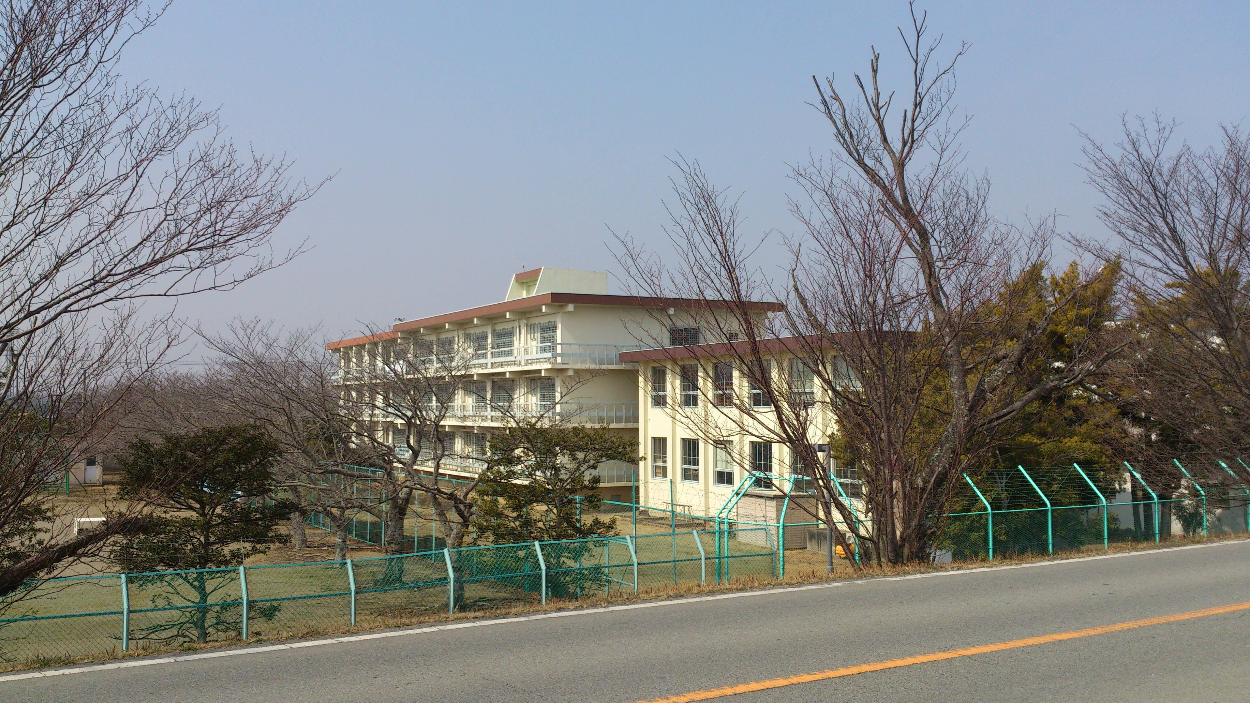 This is the Miyagawa Reformatory Training School, which is located in Ise, Mie, Japan.